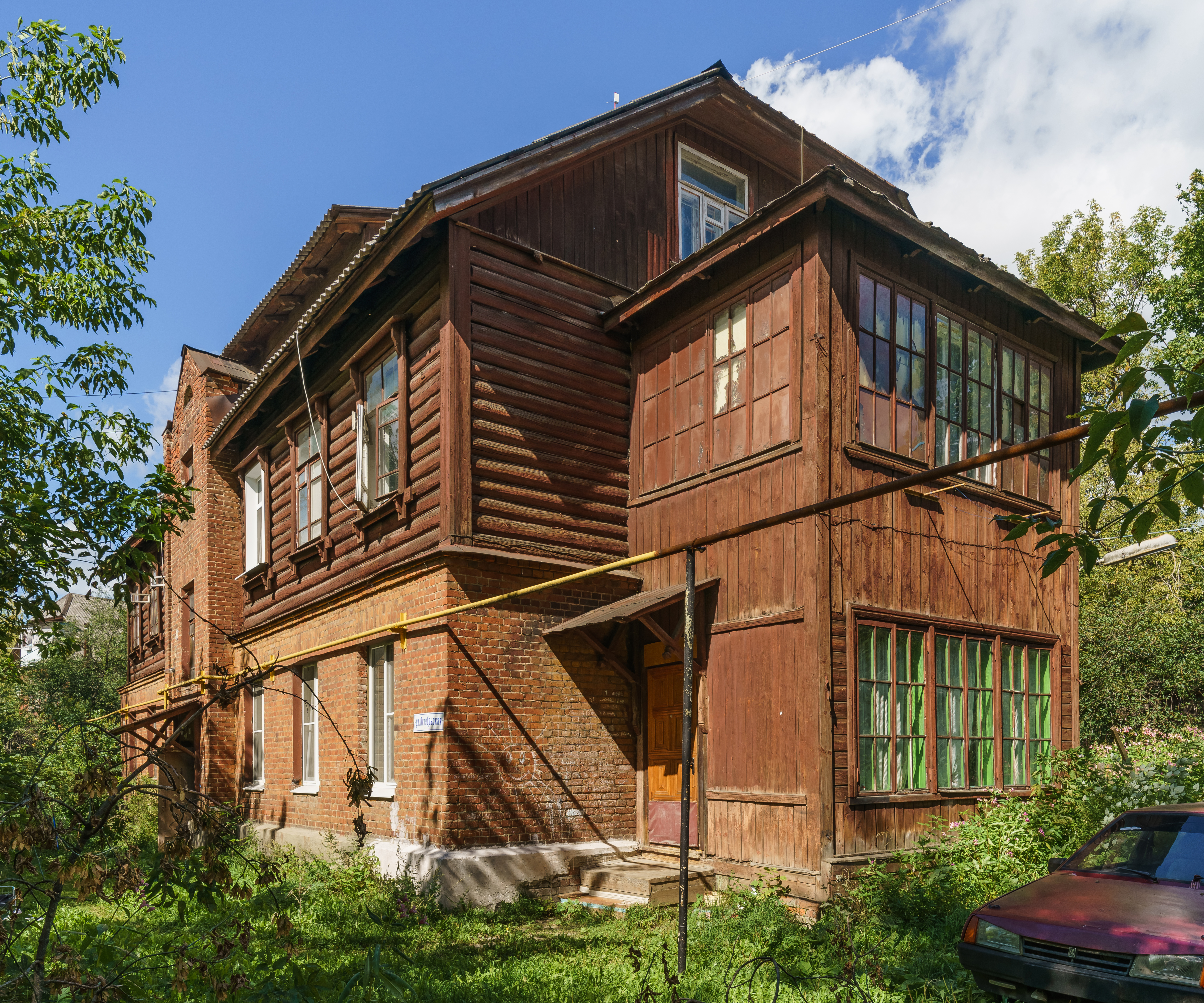 Second Workers' Settlement: building at Oktyabrskaya Street 17 in Ivanovo, Russia